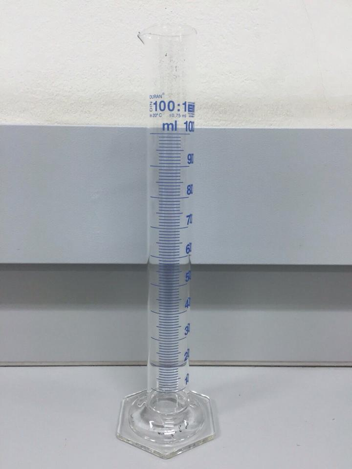 a graduated cylinder